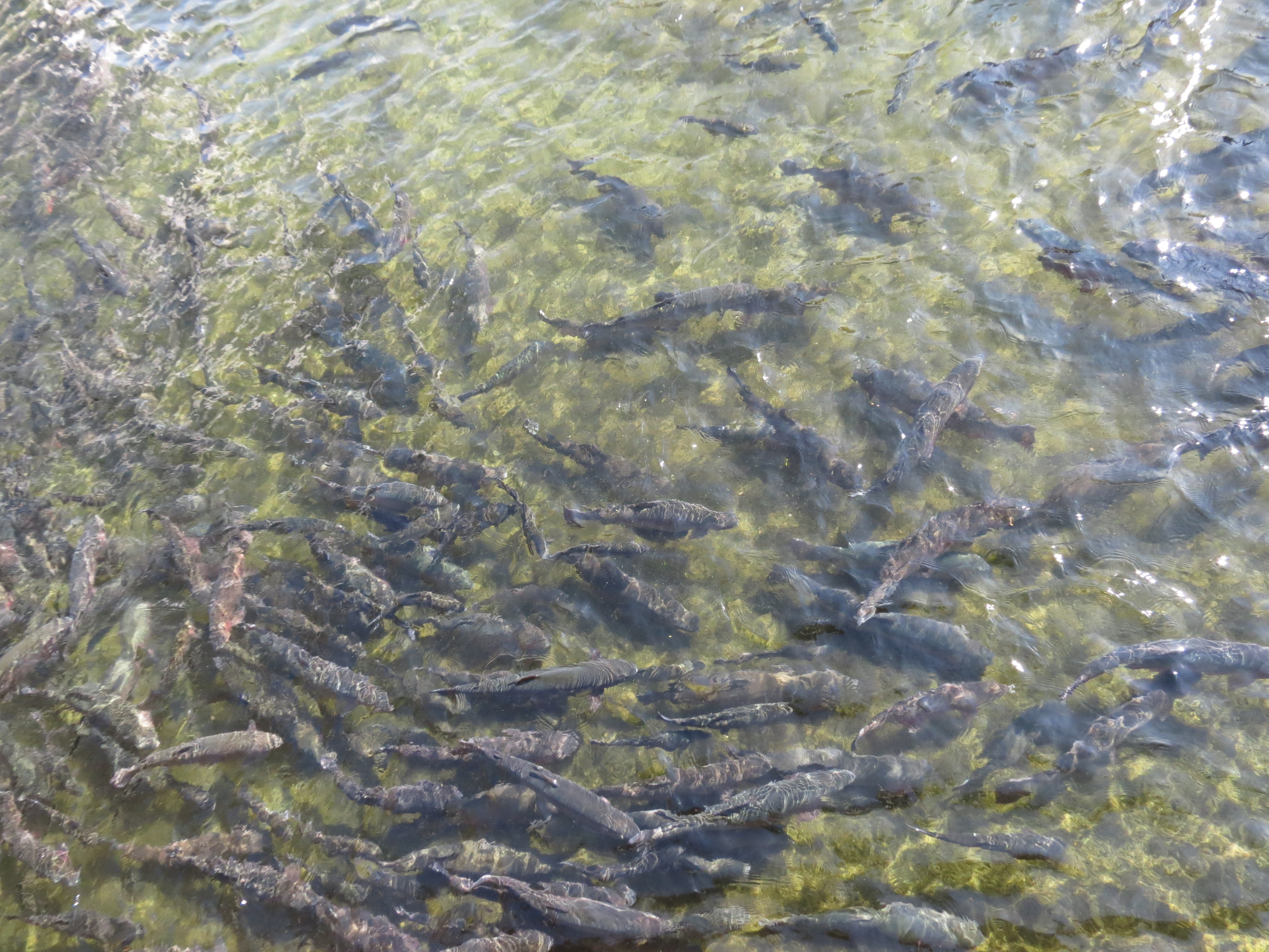 Trouts in Hotel, Restaurant and fish farm "Trofta" in Istog, Kosovo.